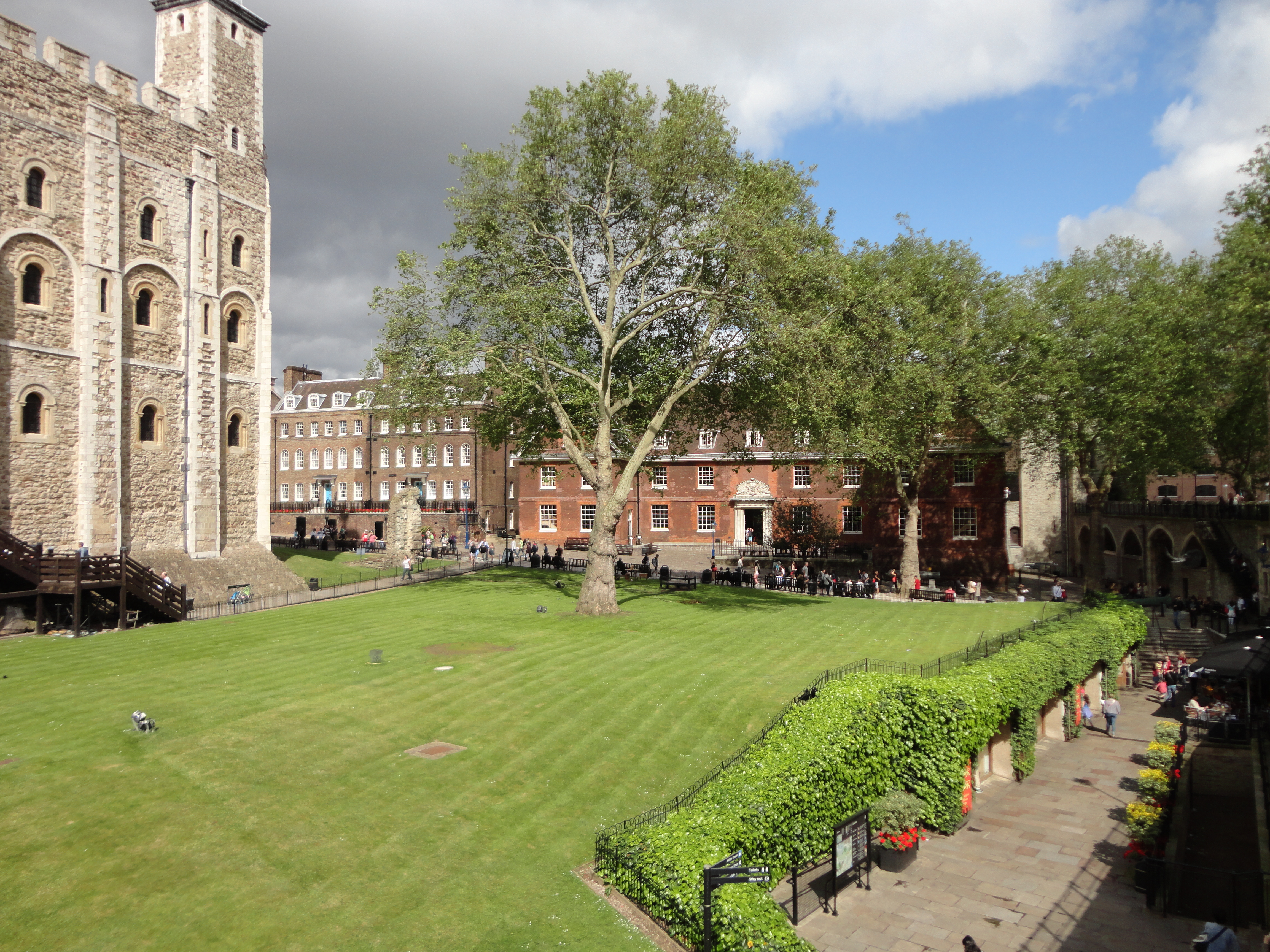 Tower of London